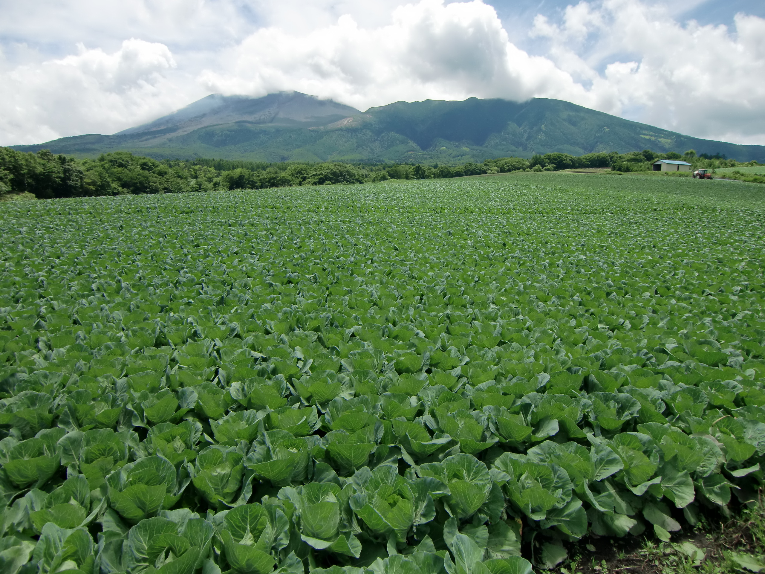 Cabbage field and Mt.Asamayama in Tsumagoi vill, Gunma, Japan. Tsumagoi is famous for its Cabbage.